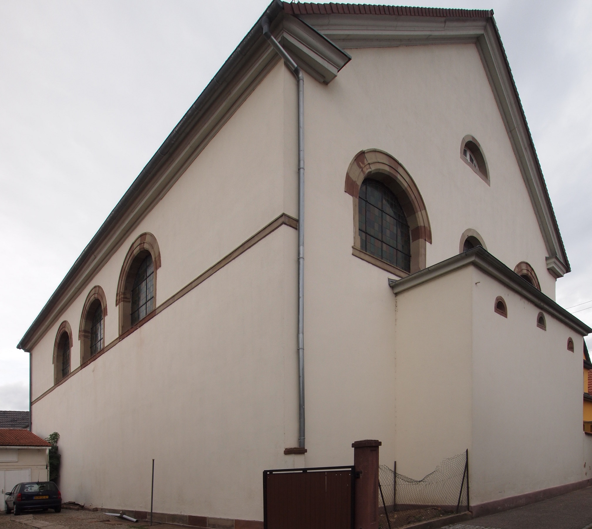 Synagogue of Brumath, France. Rear view.